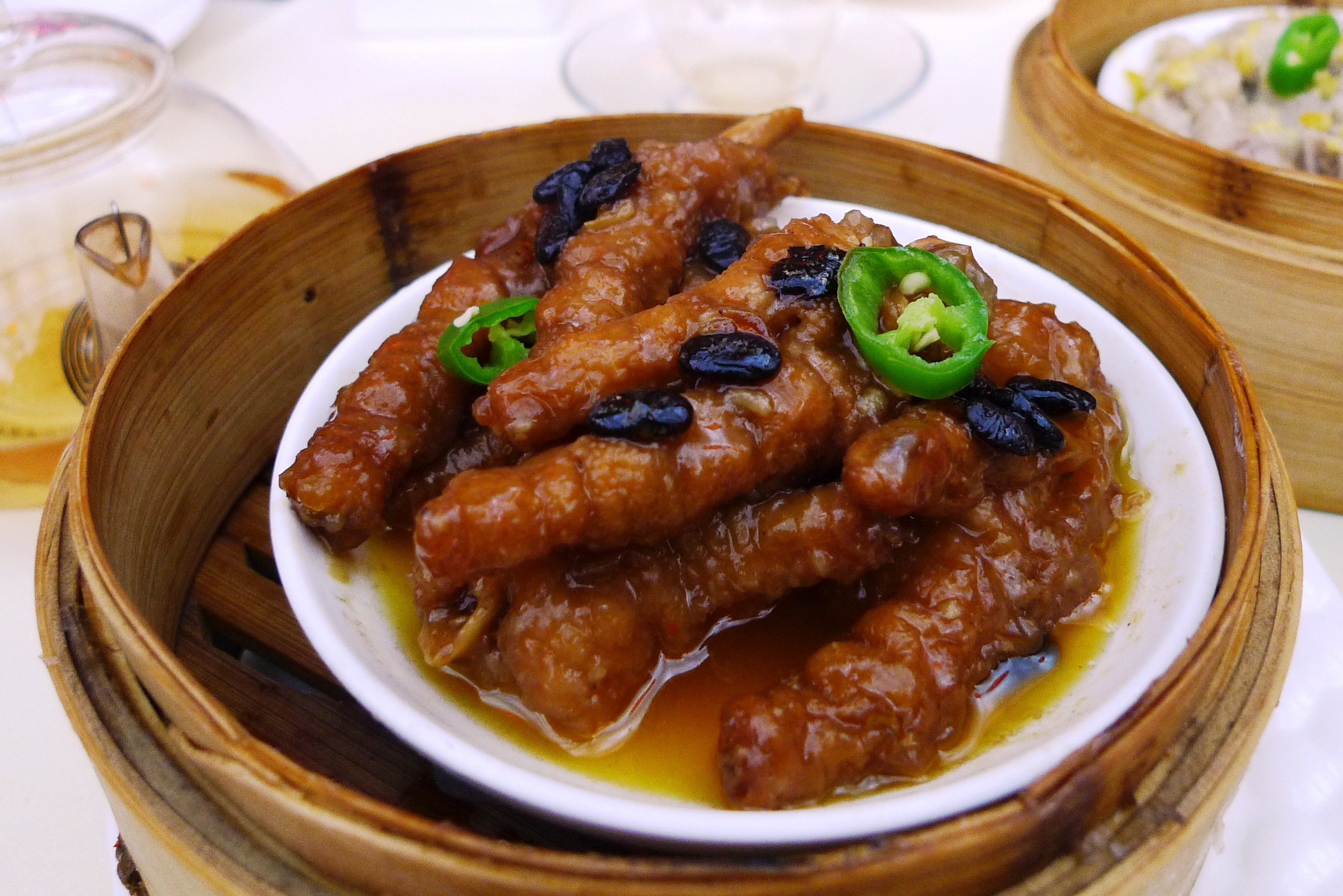 Chicken claws in black bean sauce. I think I tried one, bit rubbery for me. At Tuli, Tooley Street.